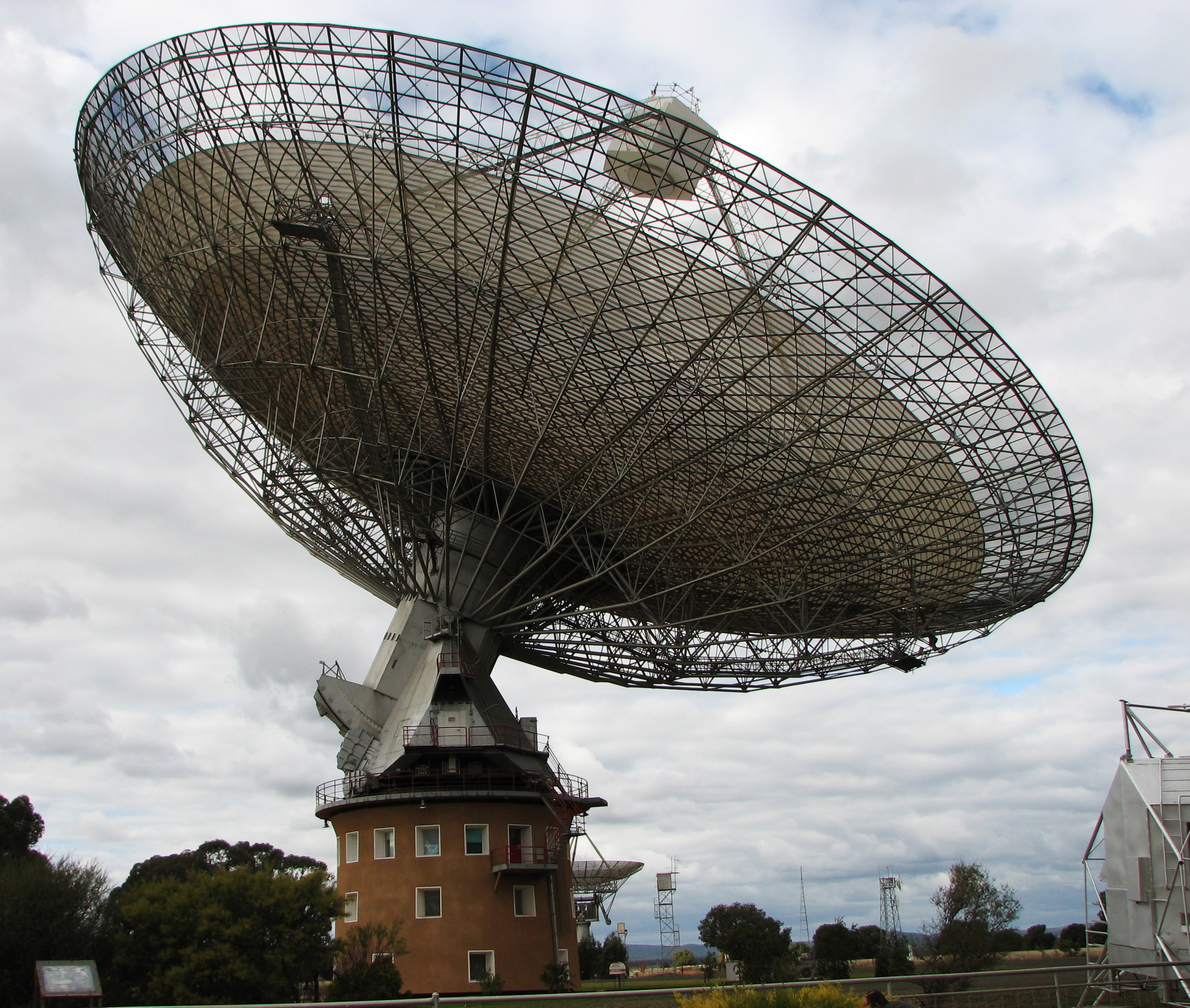 Also known as 'The Dish', star of Australian movie 'The Dish' (which incidently was filmed mostly in Forbes, not Parkes - just to add fuel to the inter town rivalry!)